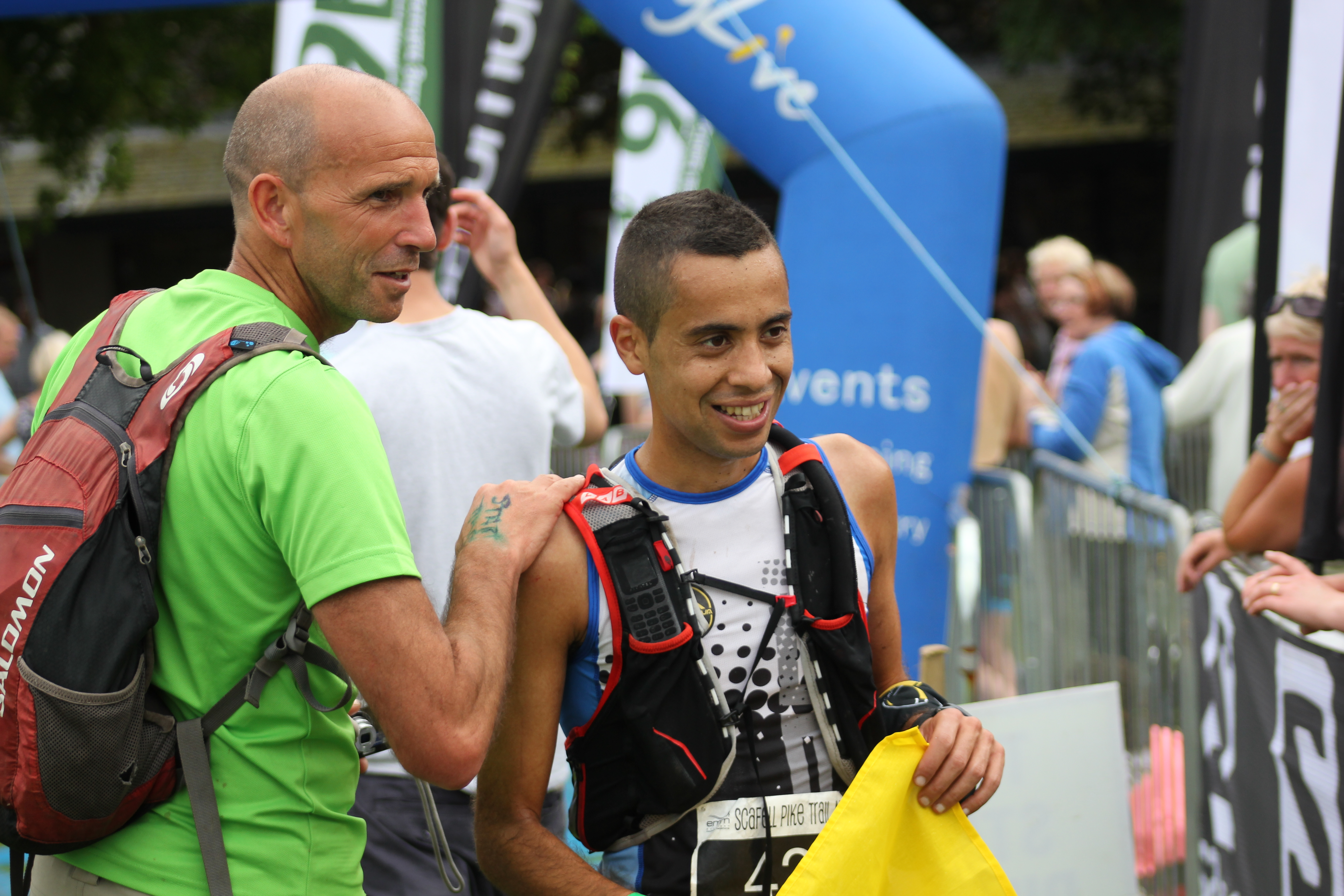 Cristofer Clemente Mora at 2014 Scafell Pike Marathon finish